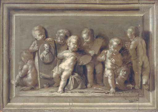 An allegory of art: Putti disporting with a portrait of the artist oil on canvas grisaille 85.7 x 122 cm signed c.l.: L.ELZEVIR.A.D. MDCXXX.